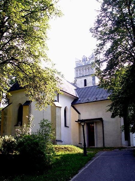 Obec Svinia okr.Prešov, región Šariš,rímskokatolícky kostol This medium shows the protected monument with the number 707-380/0 in the Slovak Republic.